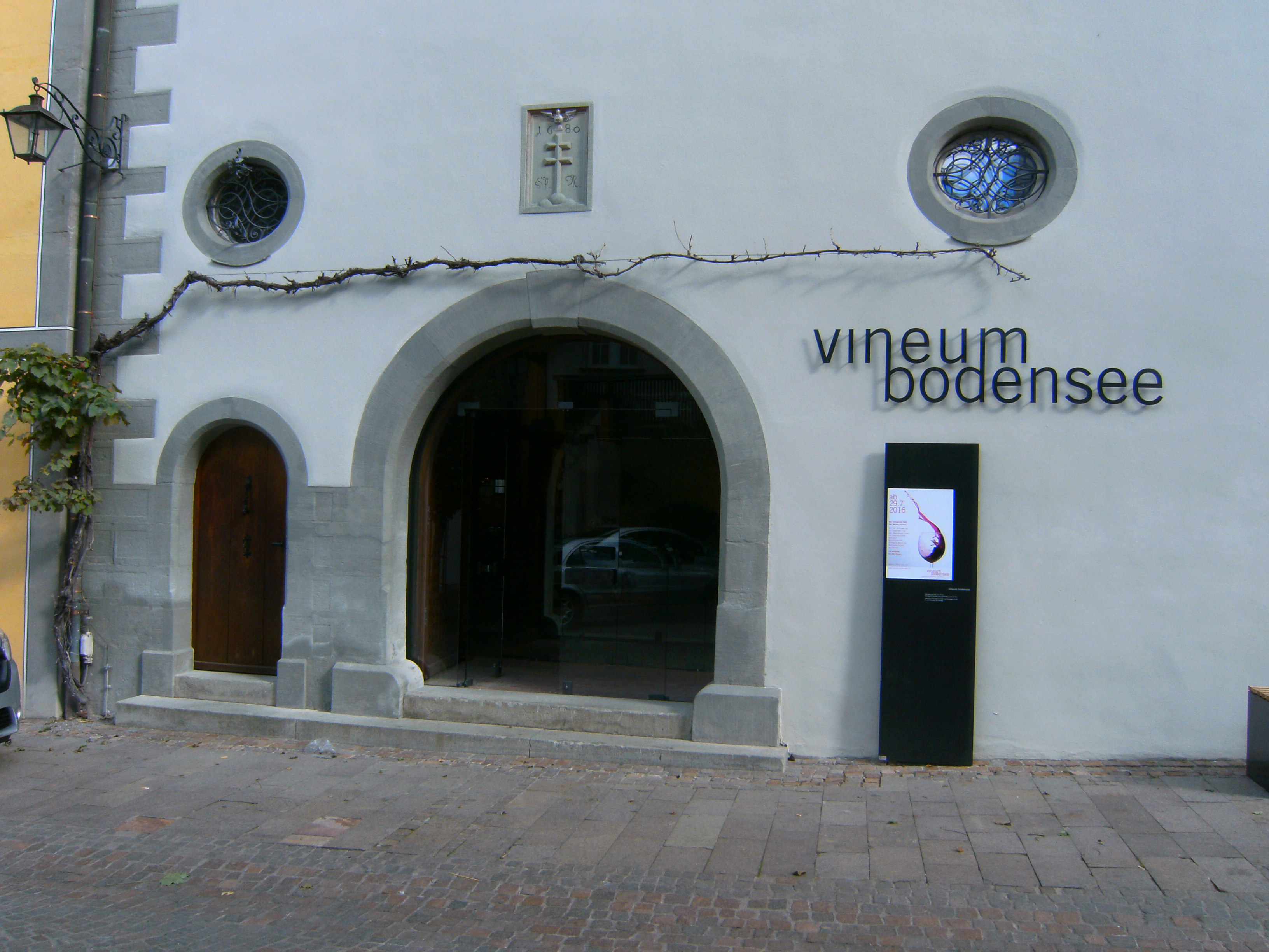 Meersburg, Germany, Vorburggasse: Entrance to the Vineum Bodensee, a museum on wine and wine production in Meersburg.